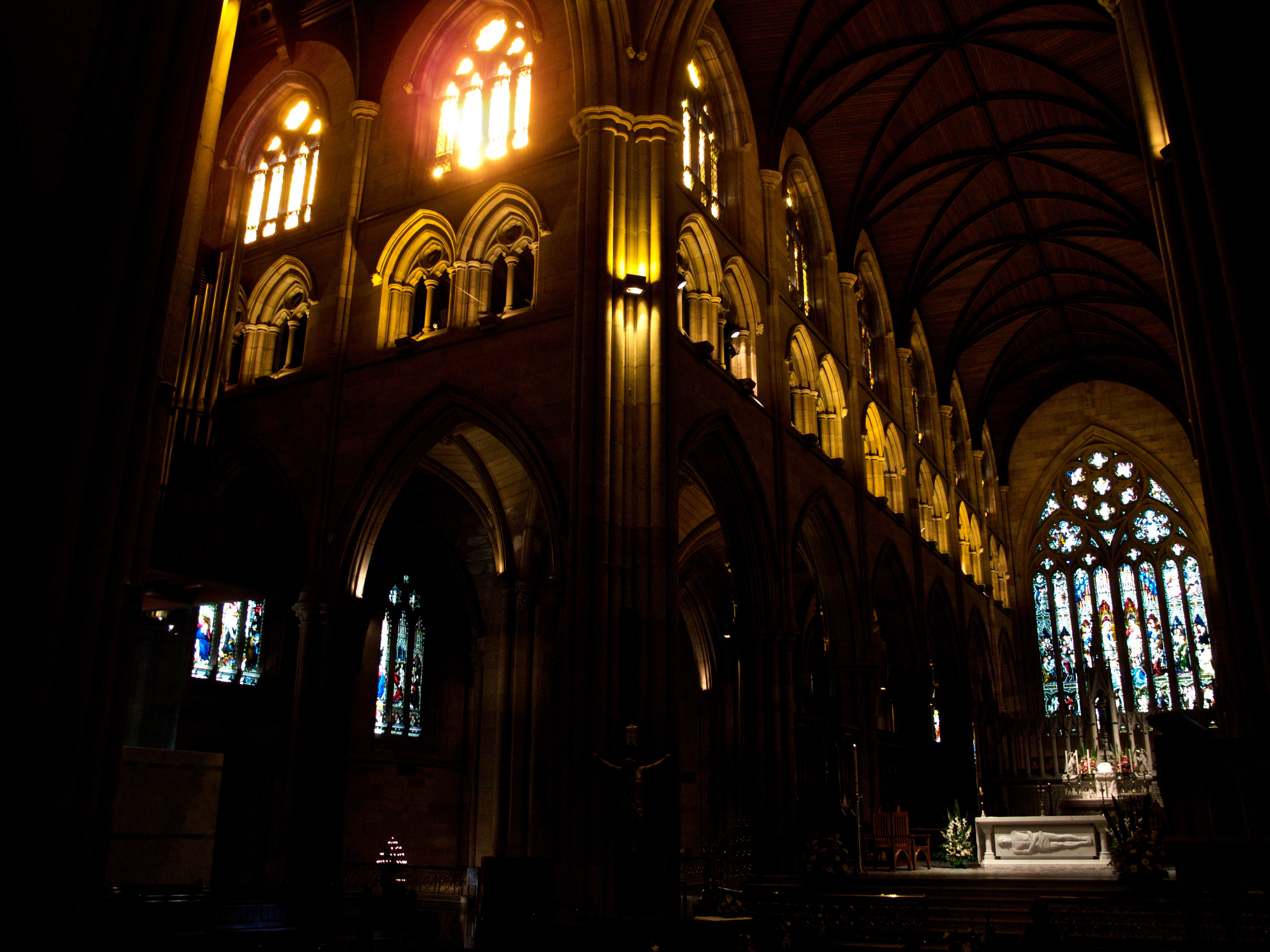 St Mary's Cathedral, Sydney.